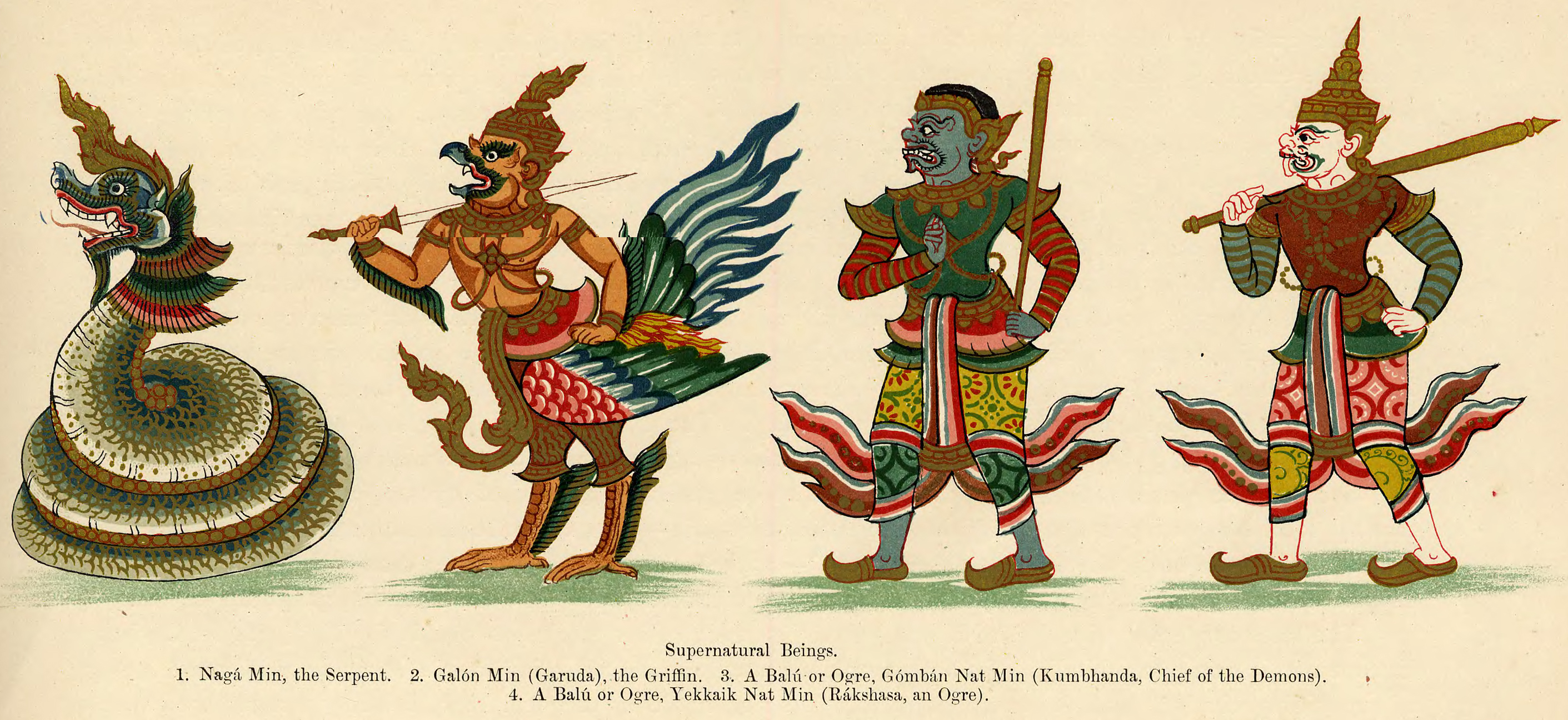 Naga, Garuda (Galone) and Balu (ogre) in Burmese representation